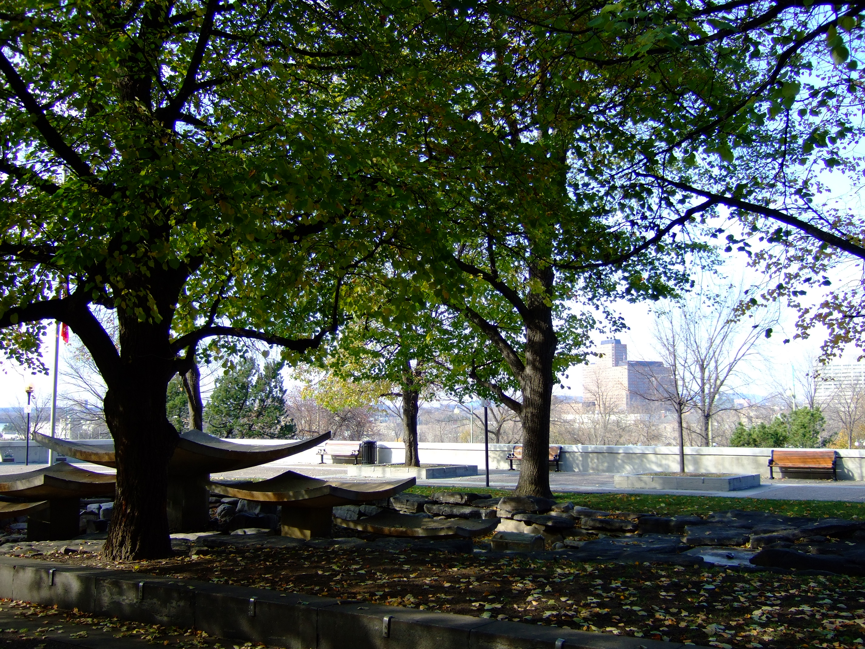 Concave structures representing the Canadian Great Lakes in the Garden of the Provinces and Territories on Wellington Street, across from the National Archives. Terrasses de la Chaudière can be seen in the distance.